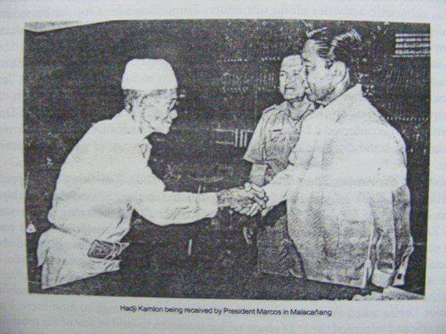 Datu Hadji Kamlon, also known as Maas Kamlon, is a Tausug freedom fighter who fought during the Second World War, and afterwards, staged his own uprising against the Philippine government.